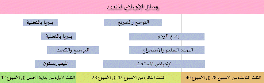 Gestational age may determine which abortion methods are practiced.